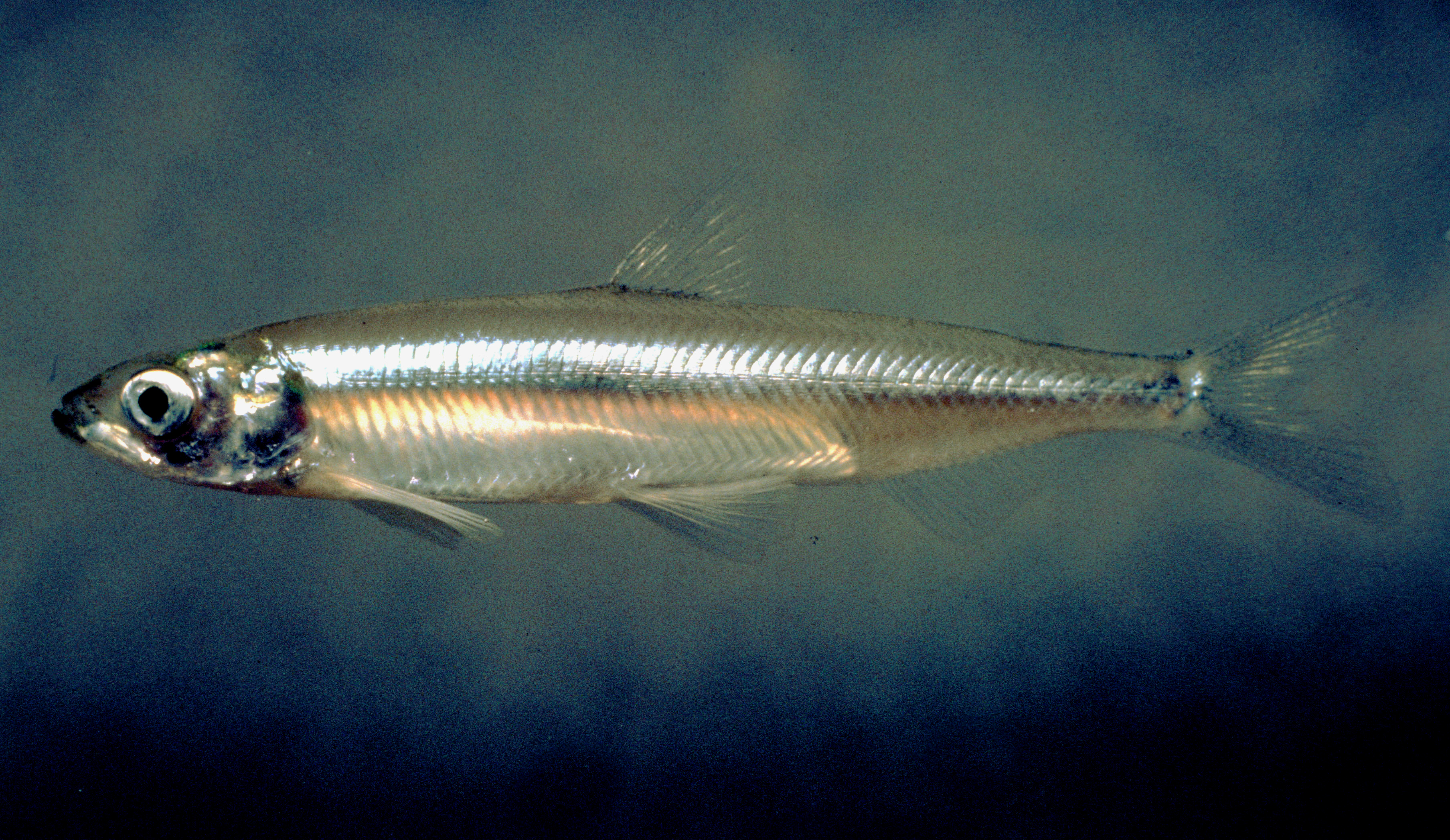 Delta Smelt (Hypomesus transpacificus). Native to the Sacramento–San Joaquin River Delta region of northern California.